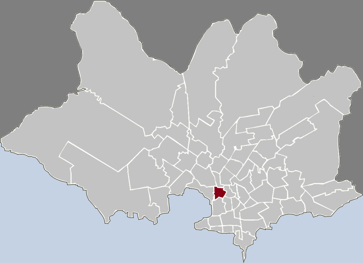 Map highlighting the given barrio in Montevideo.